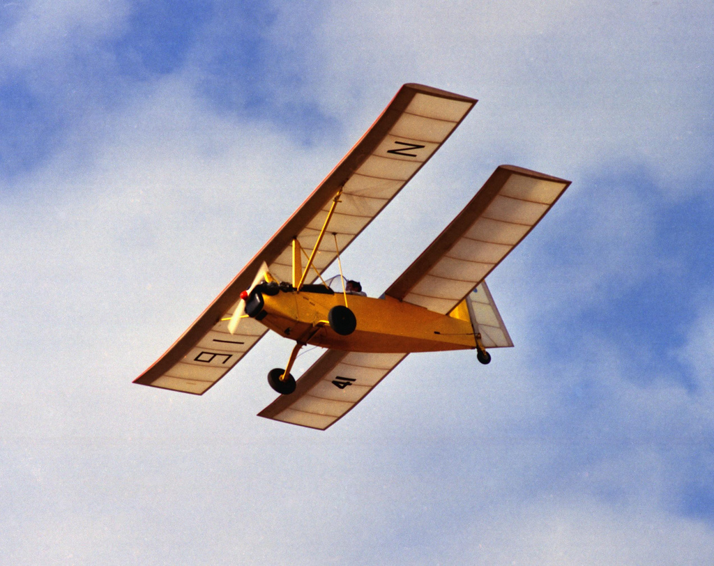 Croses Pouplume, afrench tandem wing ultra-light